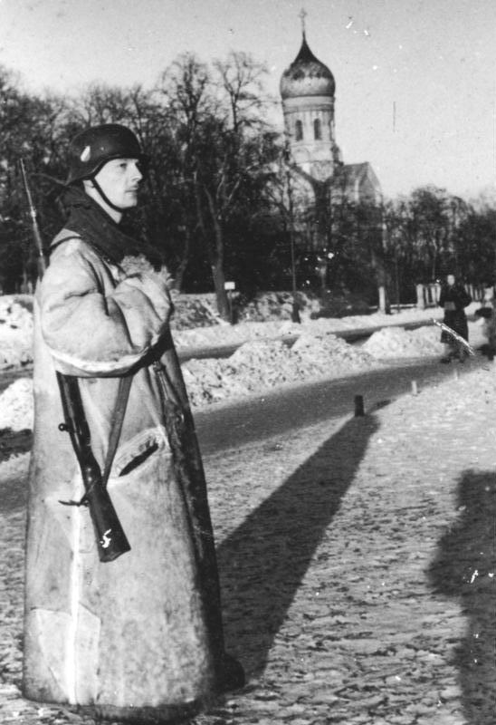 Warsaw during World War II: Joe Heydecker - German photographer from propaganda company, the author of many photos from Warsaw on the corner of Wolska and Gizów streets in February 1941r. In the back Orthodox church of St. John Climacus.